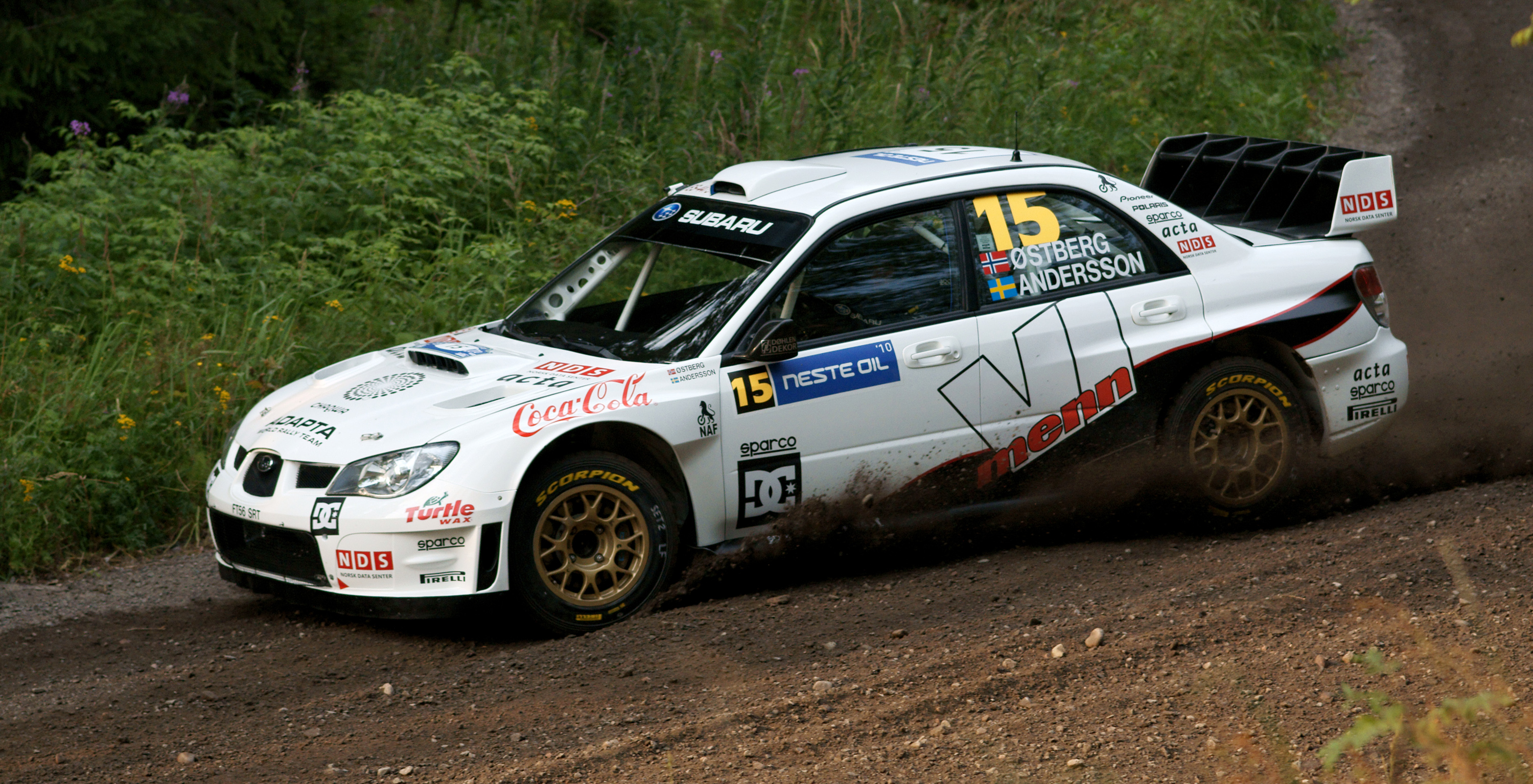 Mads Östberg driving at Laajavuori special stage, Rally Finland 2010.